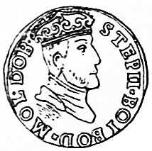 Coin of Ştefan Răzvan (Voivode of Moldavia April to August 1595).